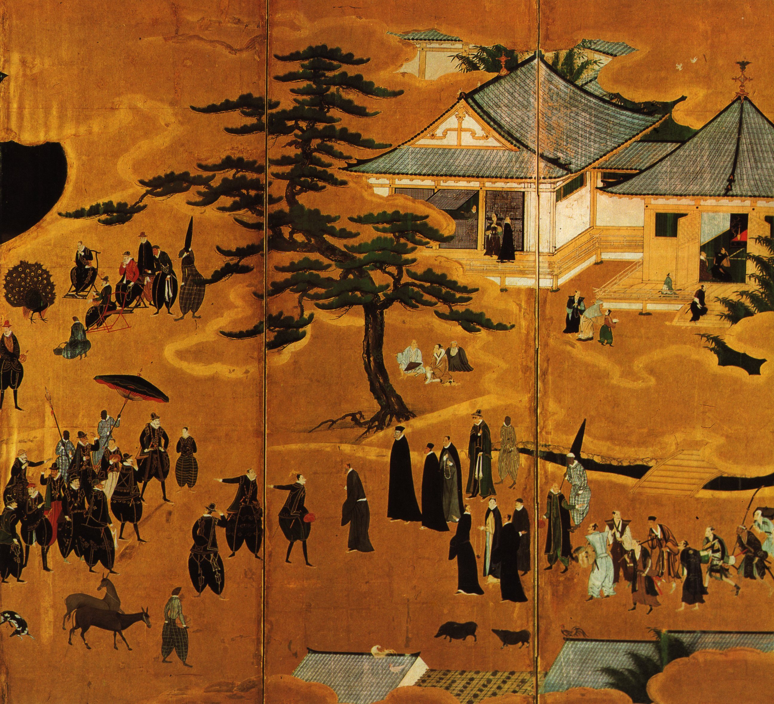 Nanban folding screen (part). Nanbanji Temple is drawn. The unloading of a black ship (Portuguese carrack)